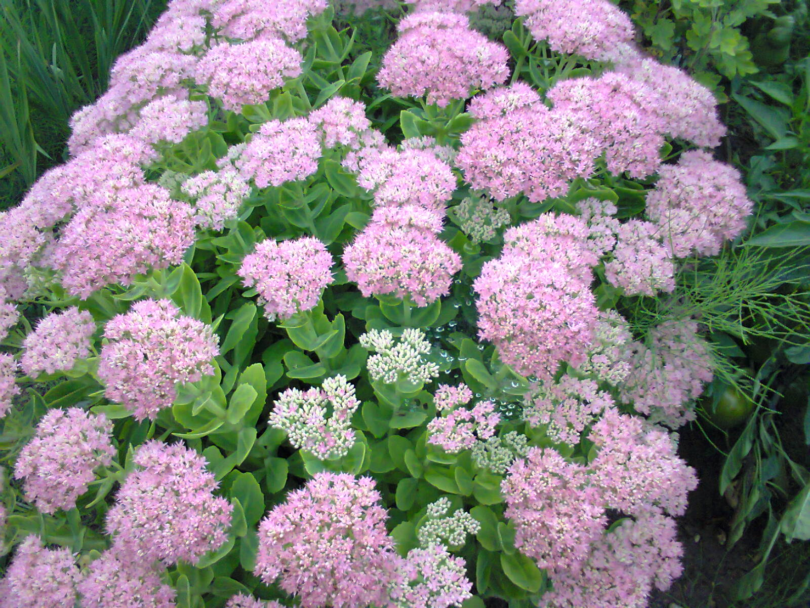 Hylotelephium spectabile in Lónyaytelep, Transylvania.